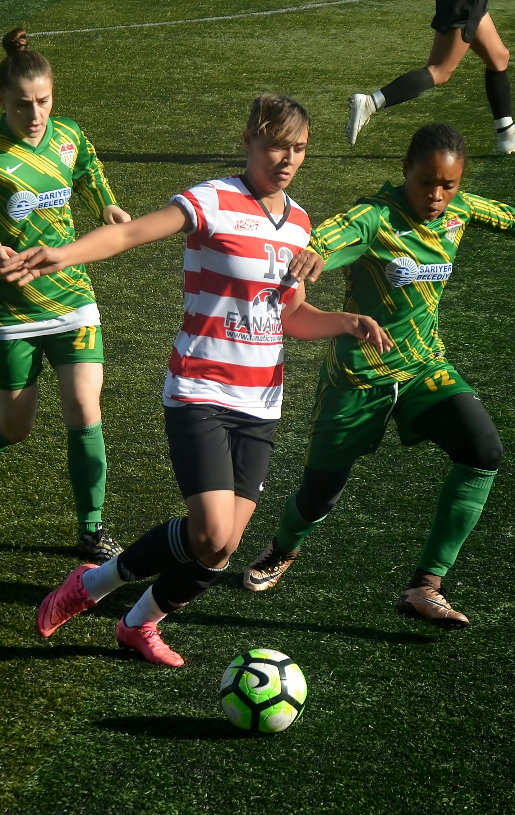 Demet Kılınç playing for 1207 Antalya Döşemealtı Belediyespor in the away match against Kireçburnu Spor in the 2017-18 Turkish Women's First League.